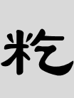 籺(hé)